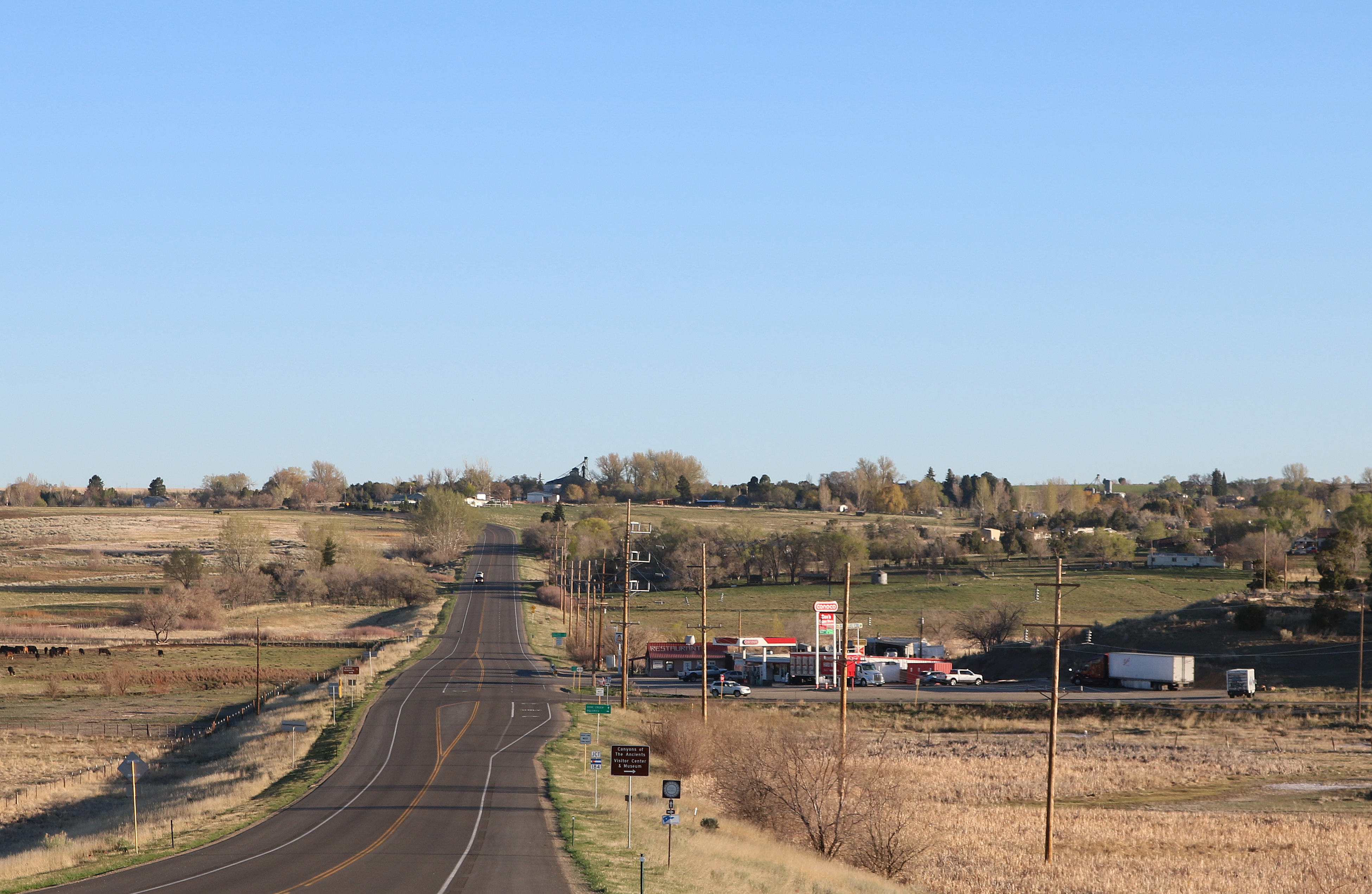 Lewis, Colorado, an unincorporated community and census-designated place in Montezuma County, Colorado. The view shows U.S. Highway 491 (going away from the camera) and Colorado State Highway 184, which goes towards the right side of the picture. The businesses at the intersection include a gas station with a convenience store, a restaurant, and a United States Post Office.